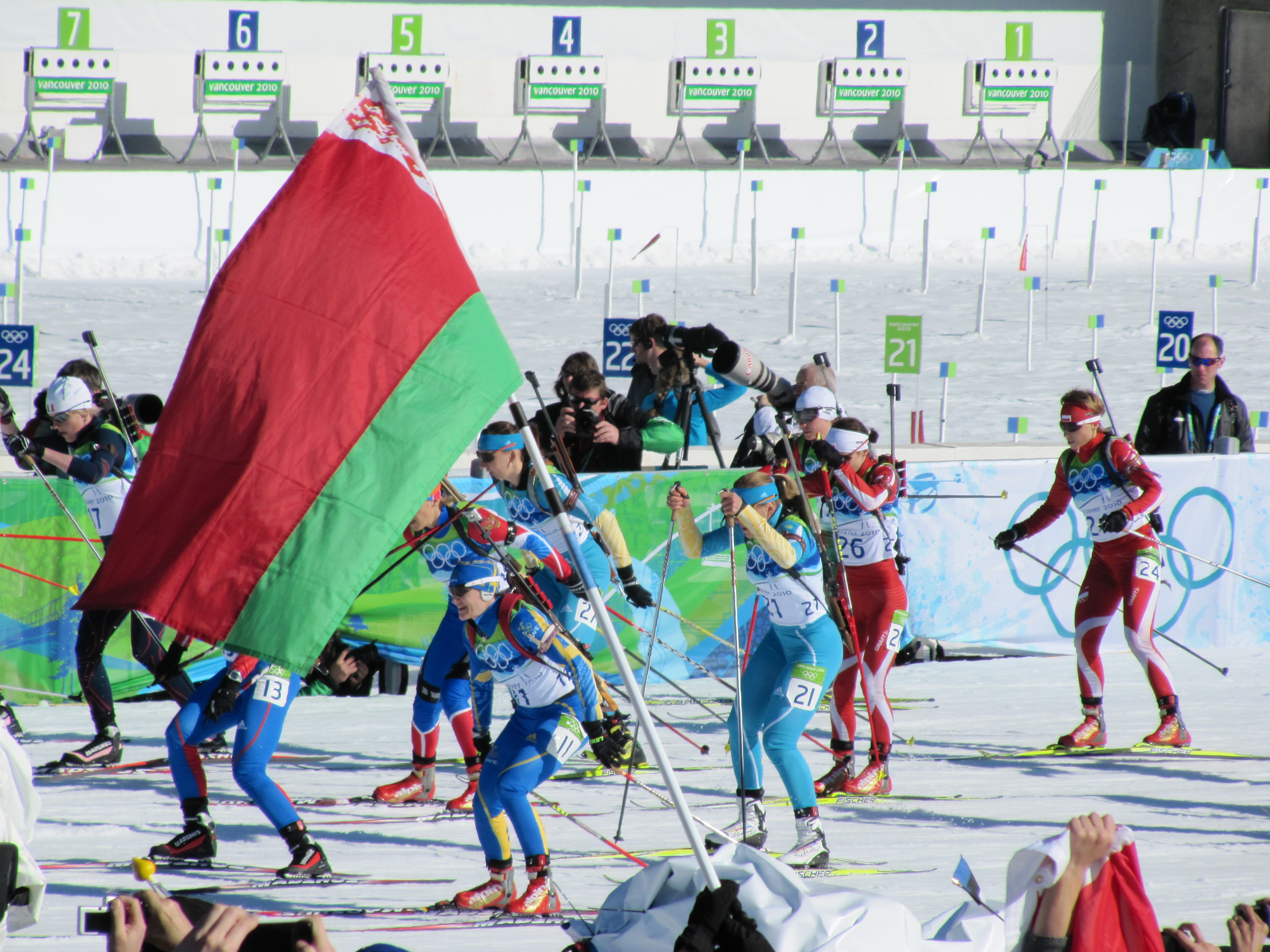 Women's Mass Start at the Winter Olympics Games in Vancouver